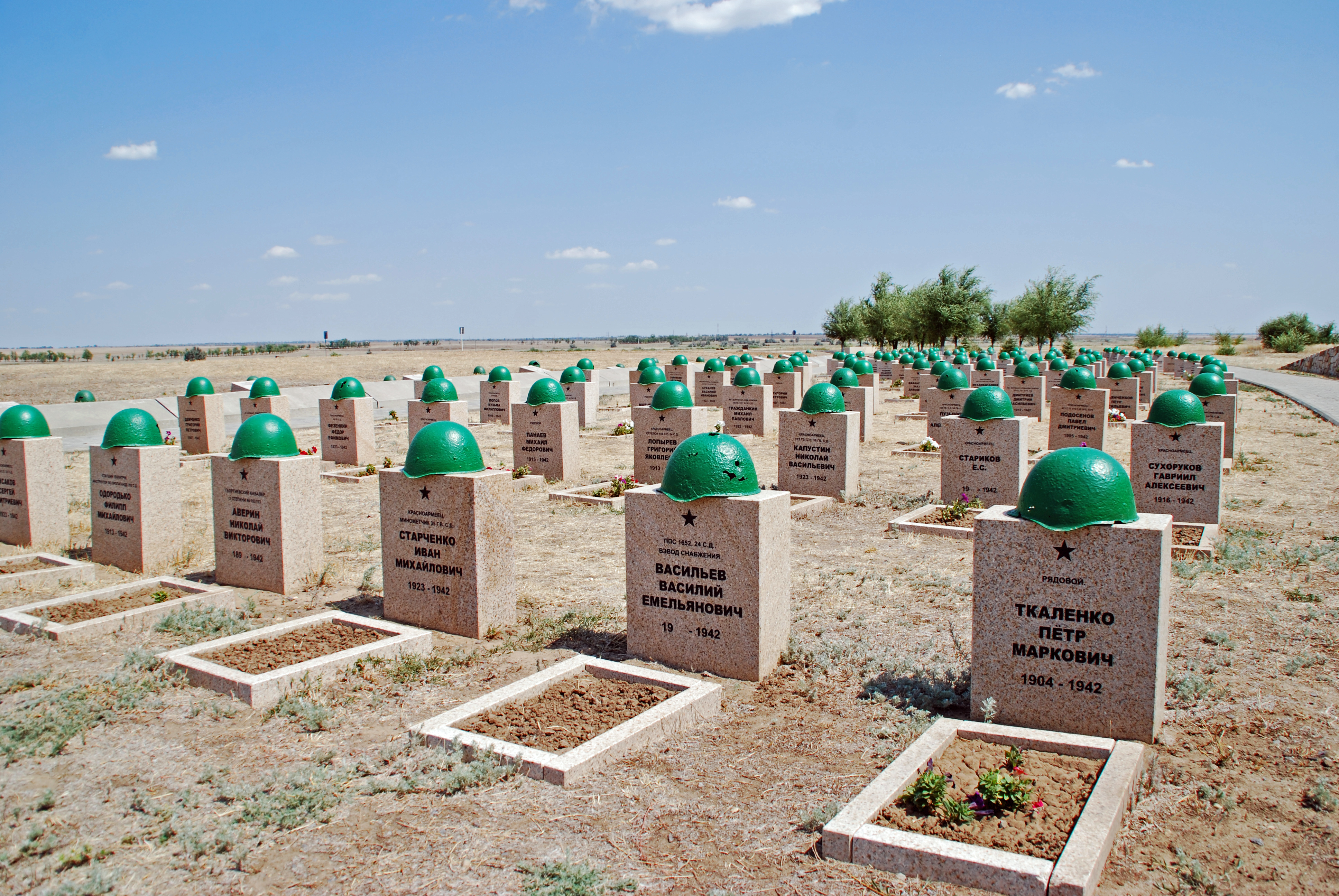 Some of the graves of individual soldiers at Rossoschka Cemetery near Volgograd, Russia.